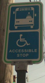 Newer design bus stop sign for Centro Bus in Central NY. Many older ones need to be replaced.